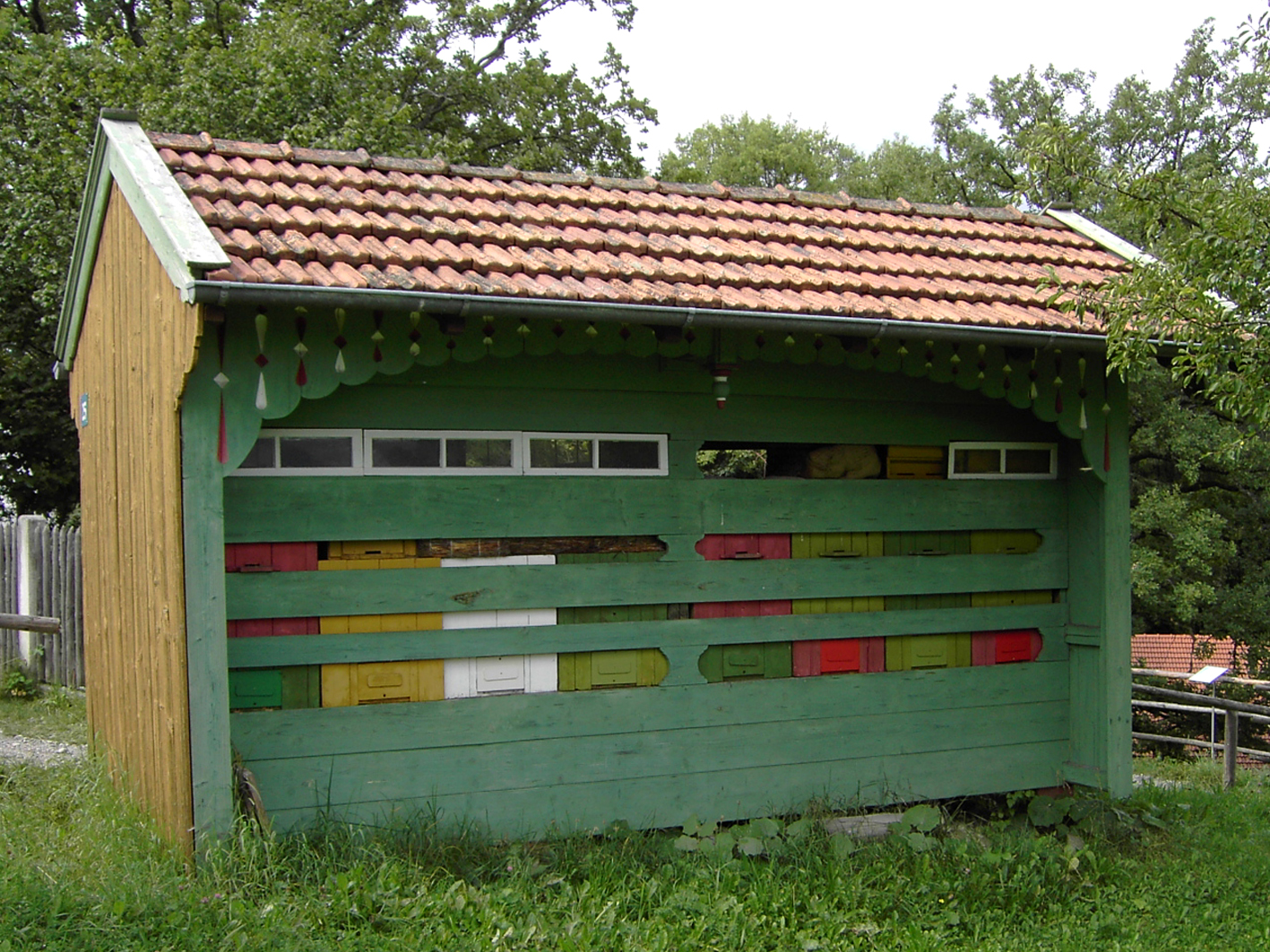 Traditional apiary in Glentleiten, South Bavaria.